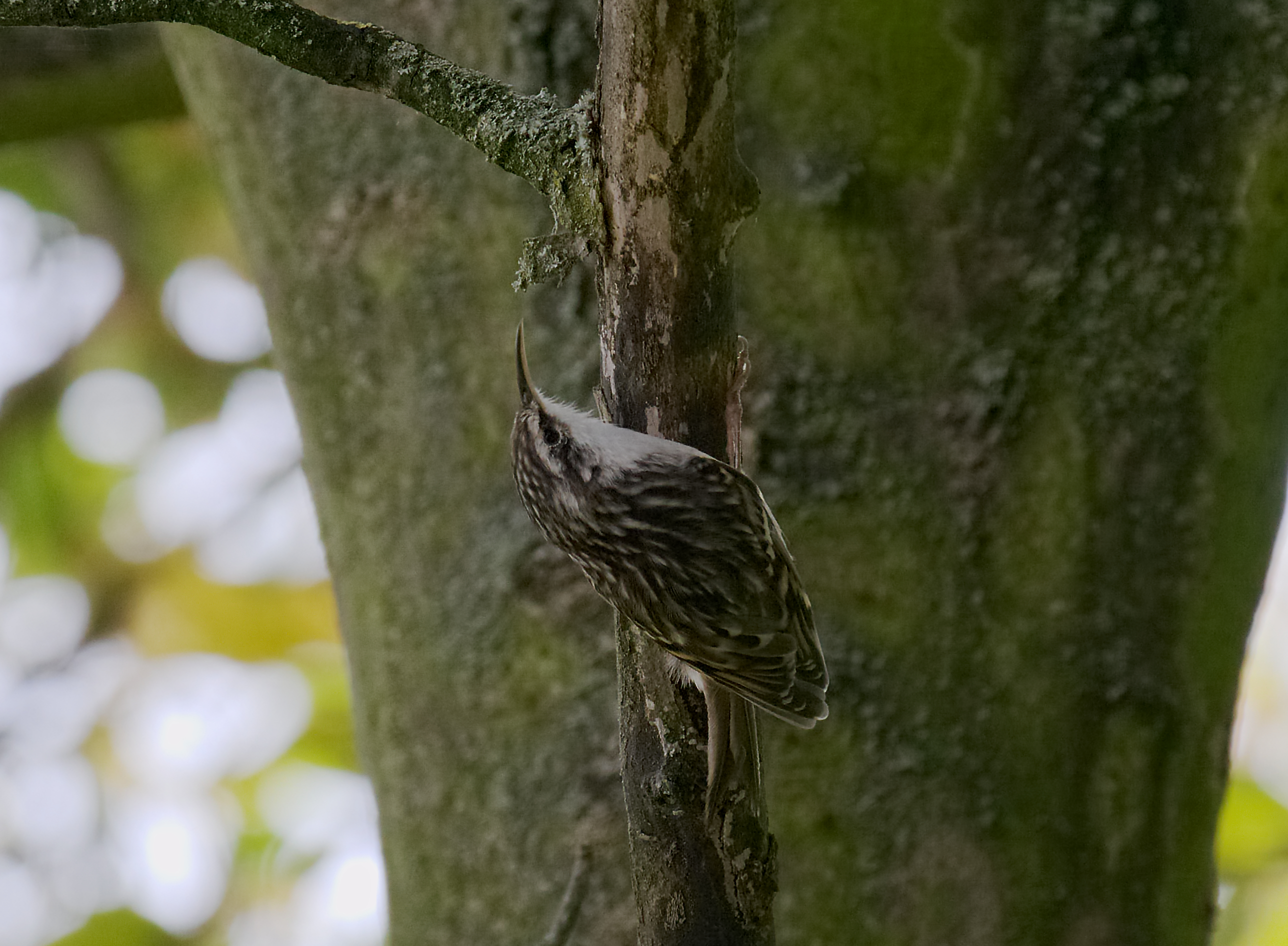 Short-toed treecreeper - Certhia brachydactyla. Taken by the Vogelstangsee in Mannheim, Baden-Württemberg, Germany.